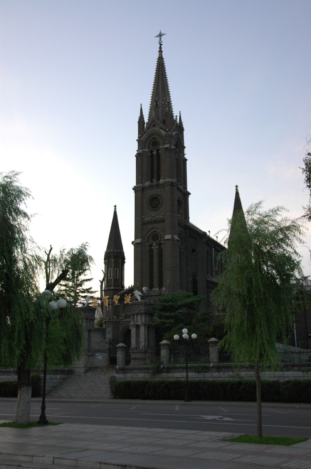 The Catholic Church of Jilin City